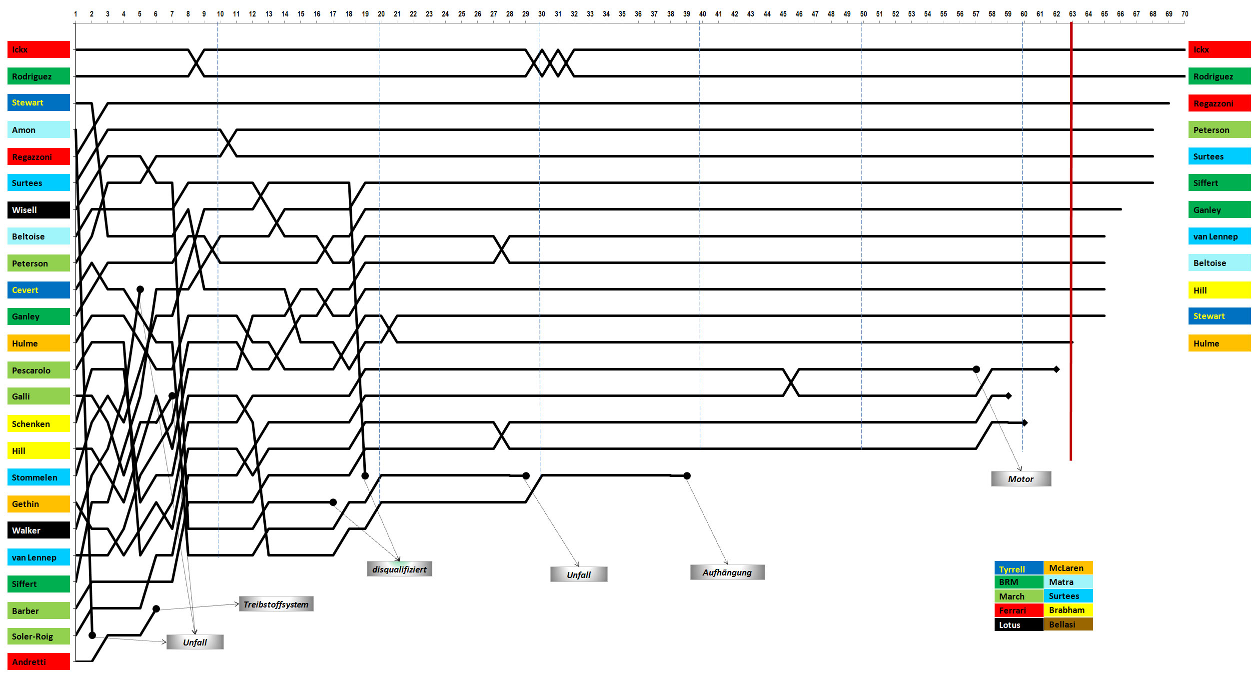 Round table Dutch Grand Prix 1971